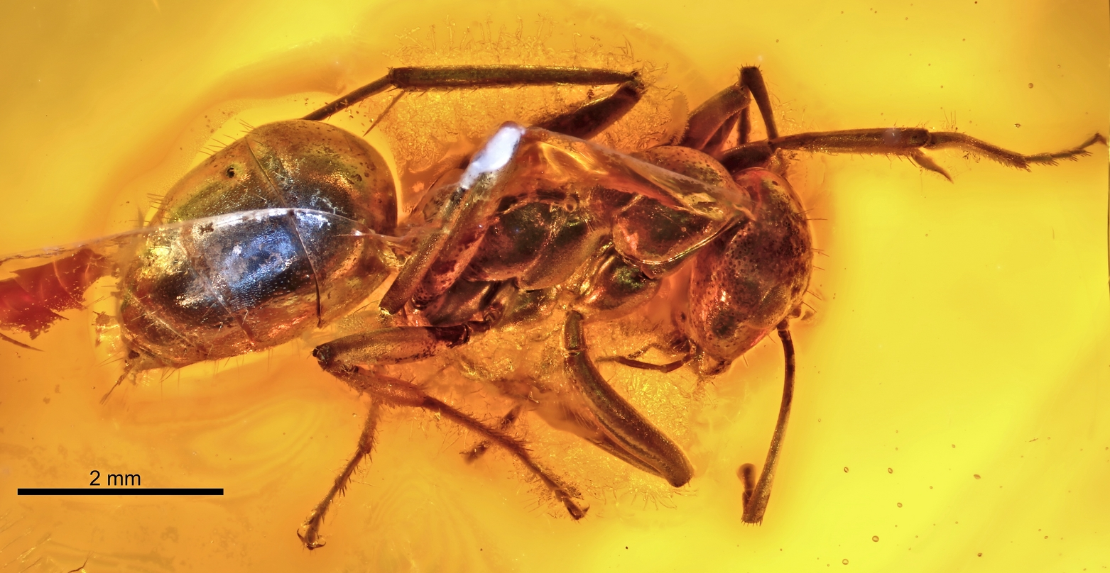 Dorsal view of a Formica gustawi worker. Middle Eocene; Baltic amber, Samland Peninsula, Kalingrad, Russia Natural History Museum, London, United Kingdom. Specimen BMNHP-II1103